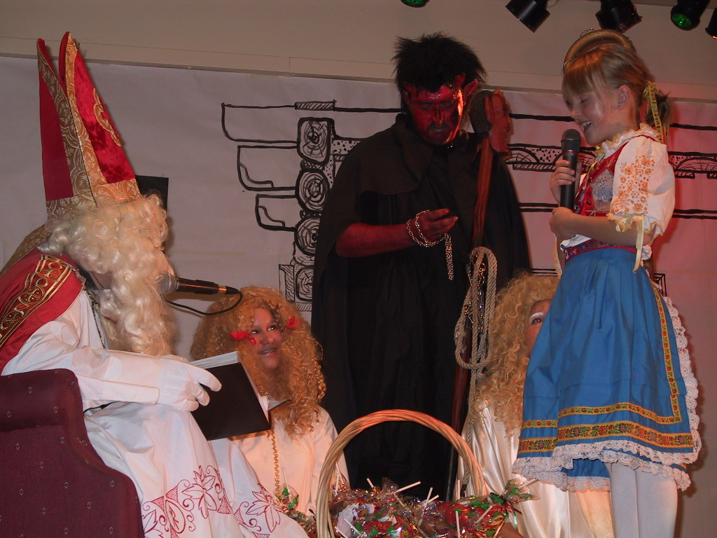 Slovak Saint Nicholas distributes gifts to children. Picture taken December 7th, 2003 in Ottawa by Janothir.